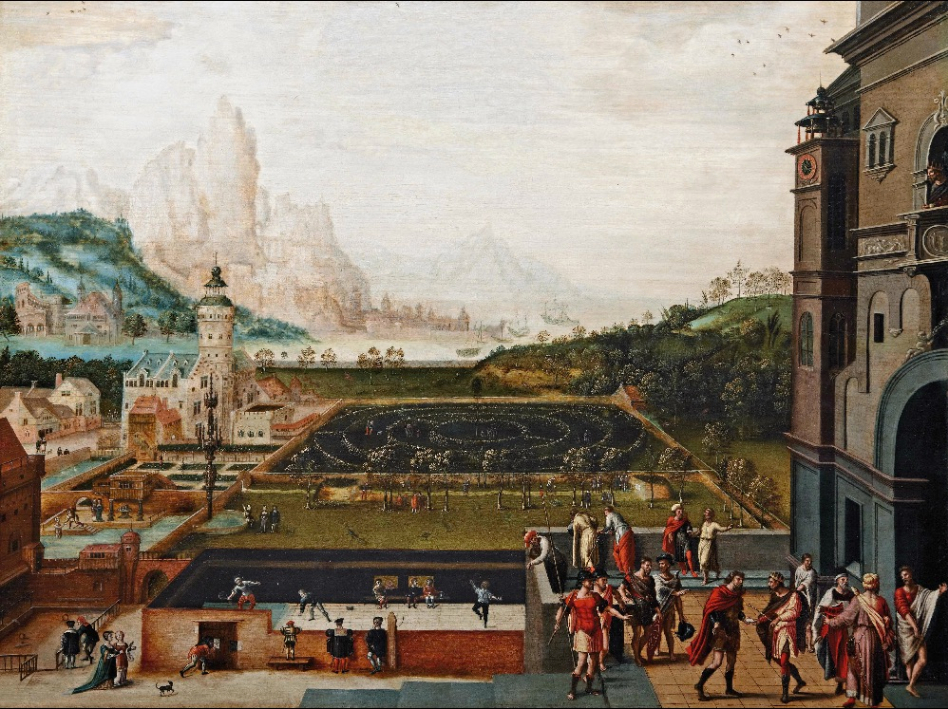 The gardens of a Renaissance palace, with episodes from the story of David and Bathsheba, in a panoramic landscape adorned with mountains and a port